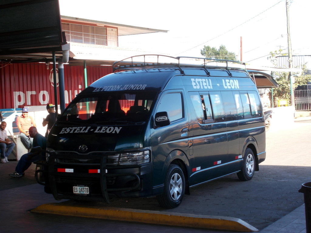 Interlocal at North Central Bus Station, Estelí, Nicaragua